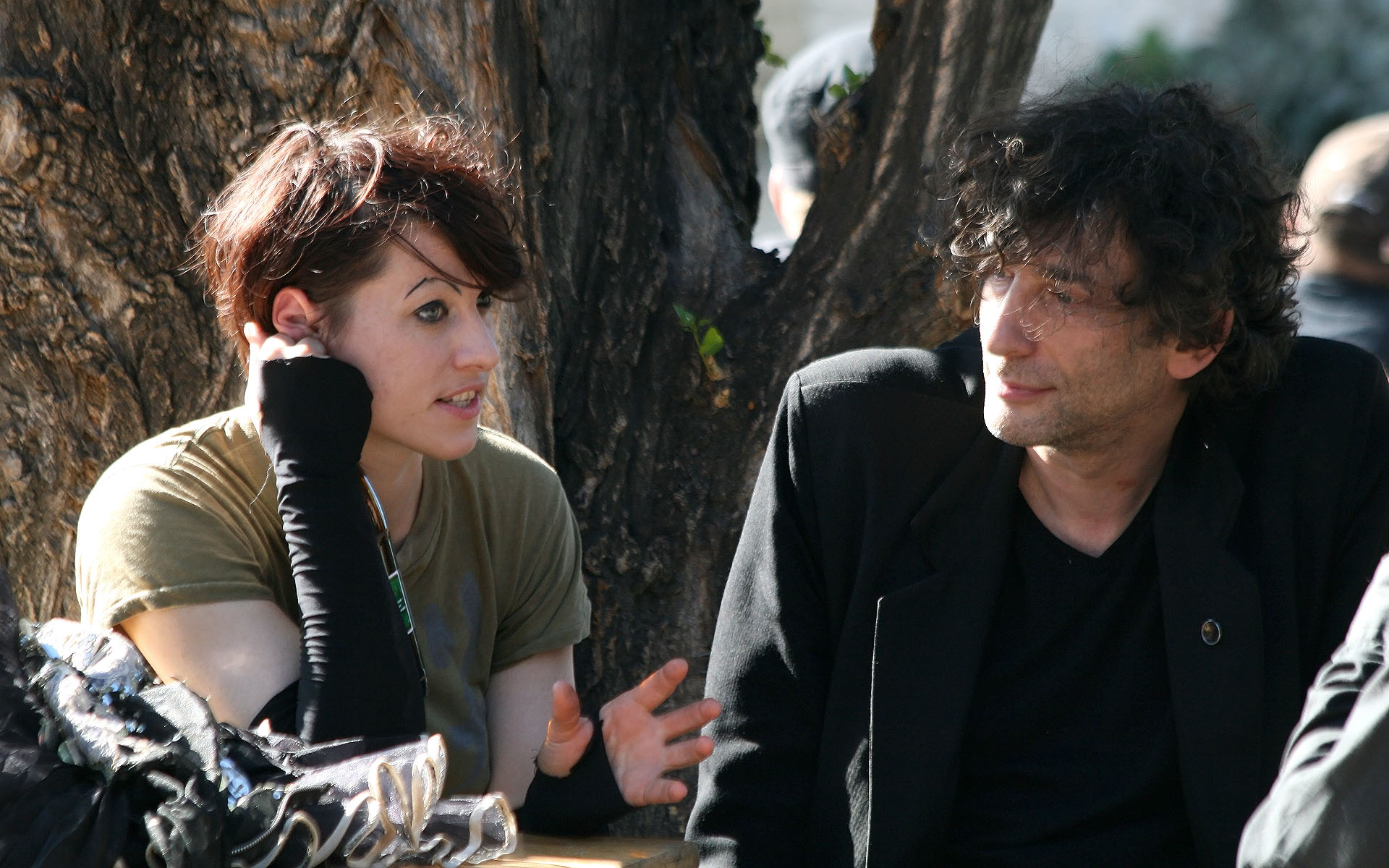 Amanda Palmer and Neil Gaiman during an interview for ORF radio before a concert at the Arena in Vienna, Austria.